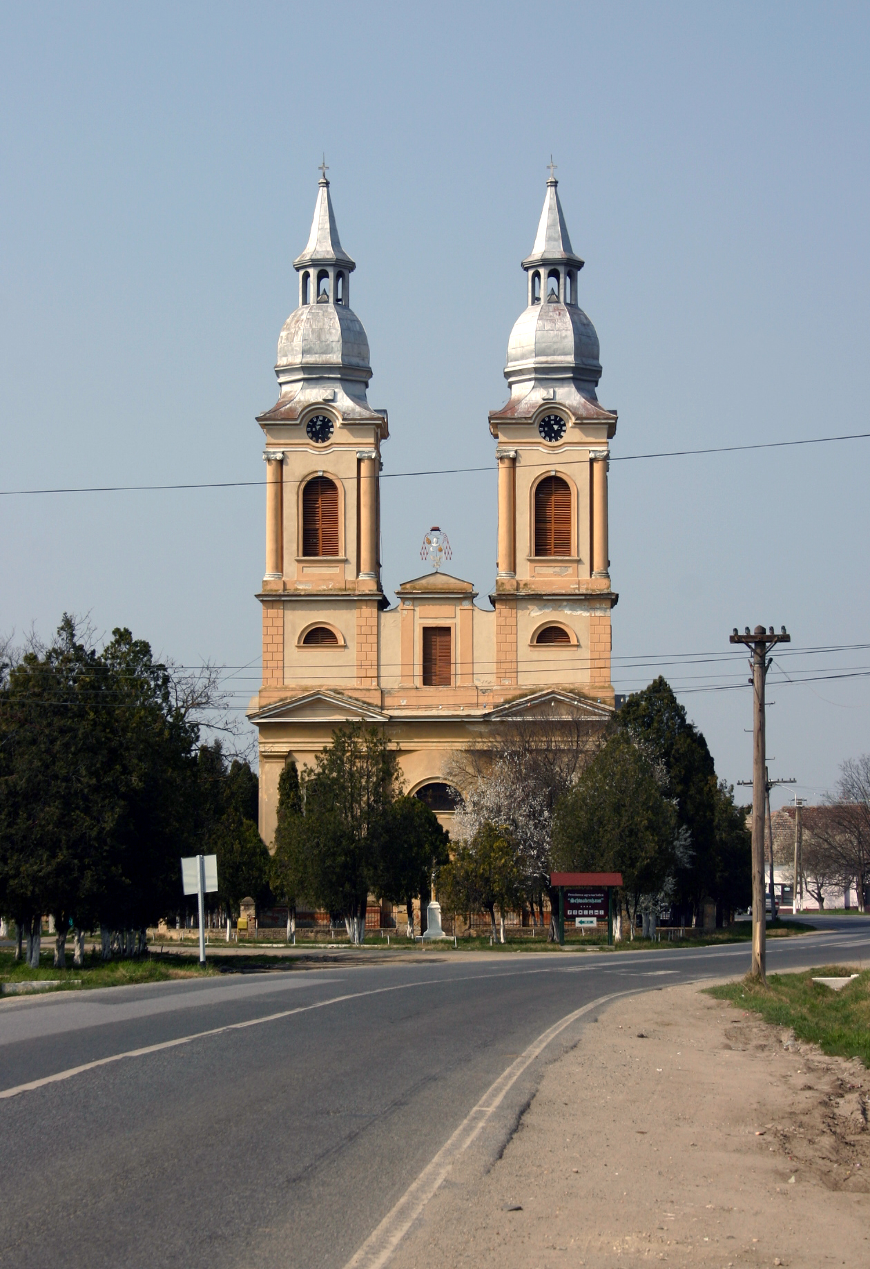 Church of Sándorháza (Sandra)